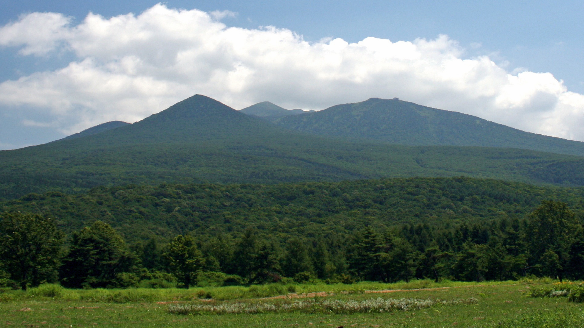 Hakkōda Mountains seen from the northwest.